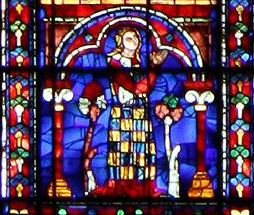 Yolande de Dreux - South rose window of Cathédrale Notre-Dame de Chartres with Gothic stained glasses